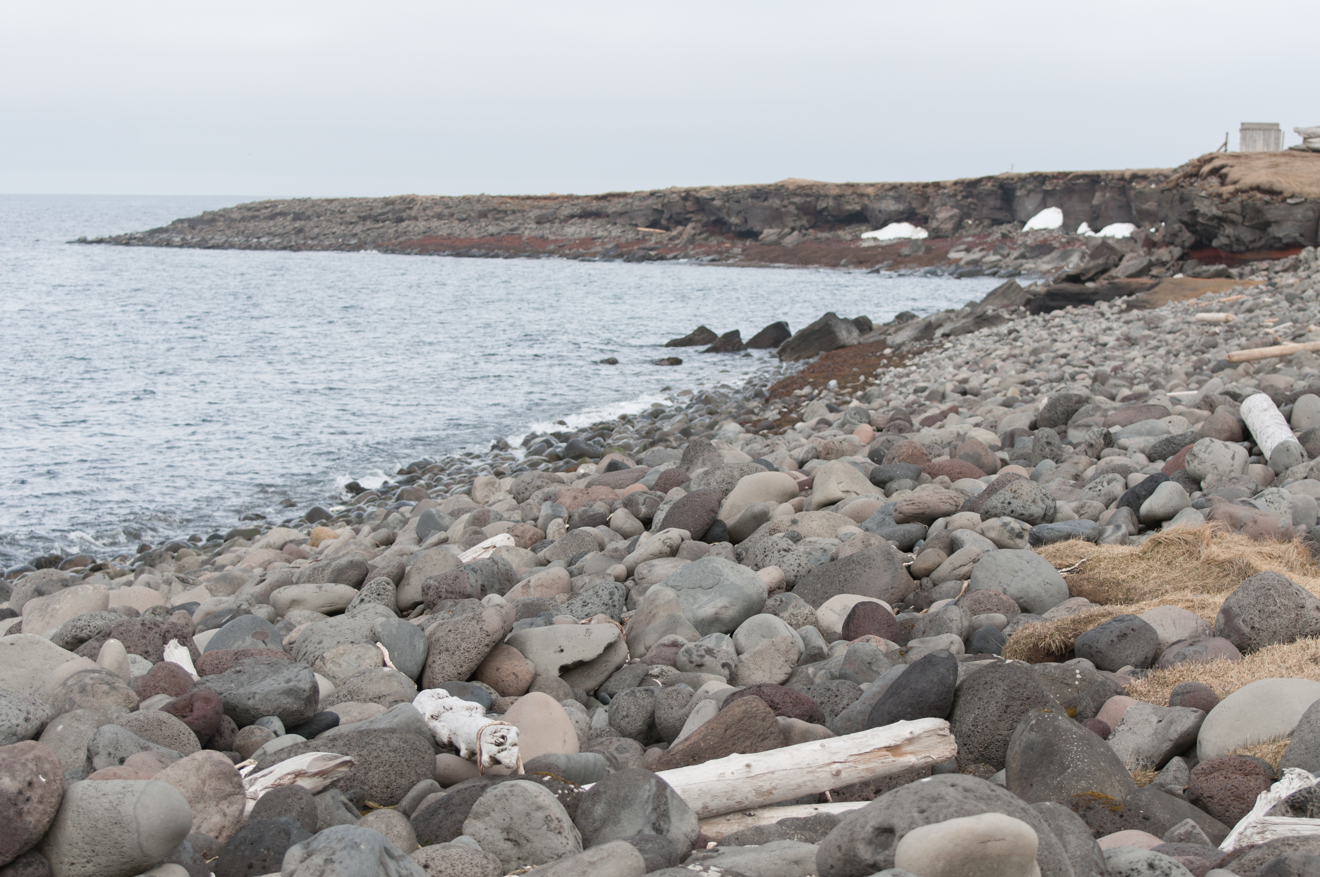 Iceland, Impressions along road 870 in the North of Iceland